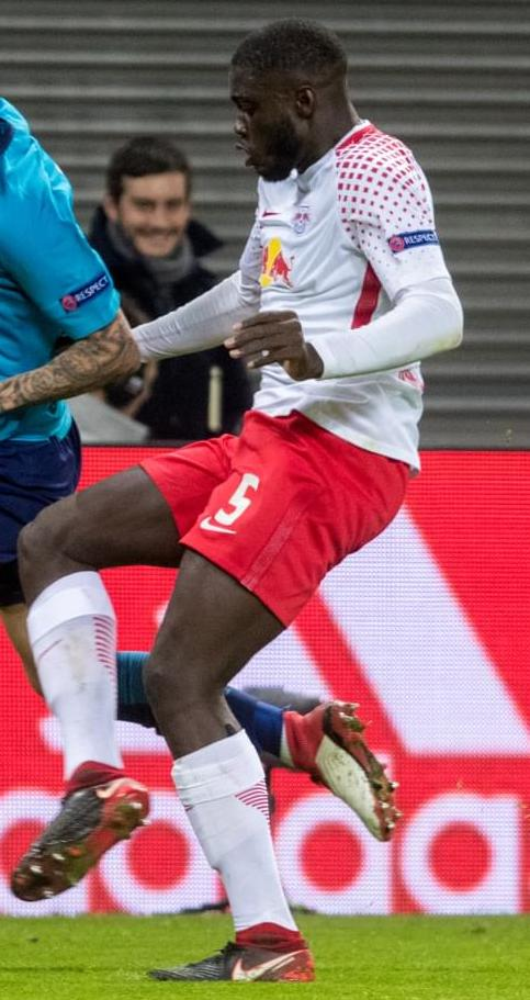 08.03.2018. Германия, Лейпциг, «РБ Арена». Лига Европы УЕФА 2017/18, 1/8 финала, «РБ Лейпциг» — «Зенит».